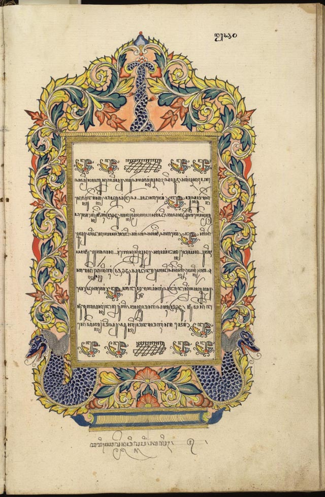 Wadana or frontispiece of Babad Tanah Jawi (History of the Javanese Land) copy from the 19th century.